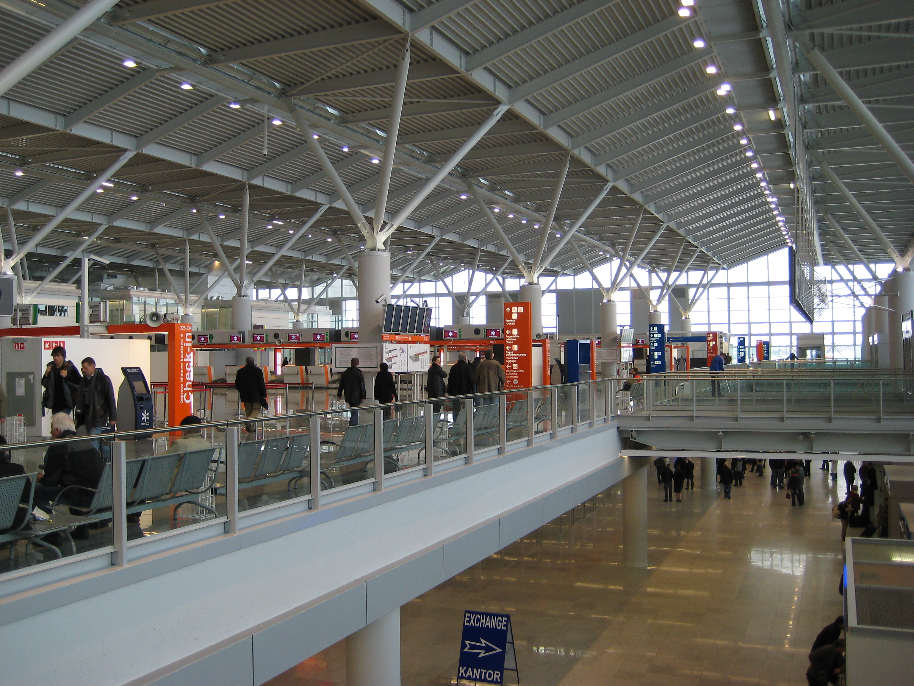 Poland, Warsaw, Airport Okecie, Terminal 2